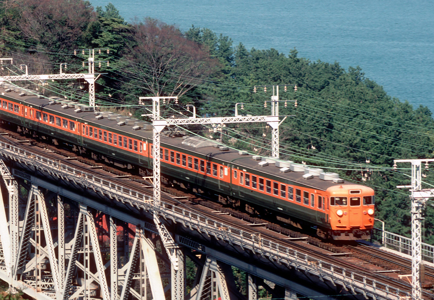 Japanese National Railways 153 series EMU of the prototype color on the express Izu service, seen between Nebukawa and Manazuru in Tokaido main line.